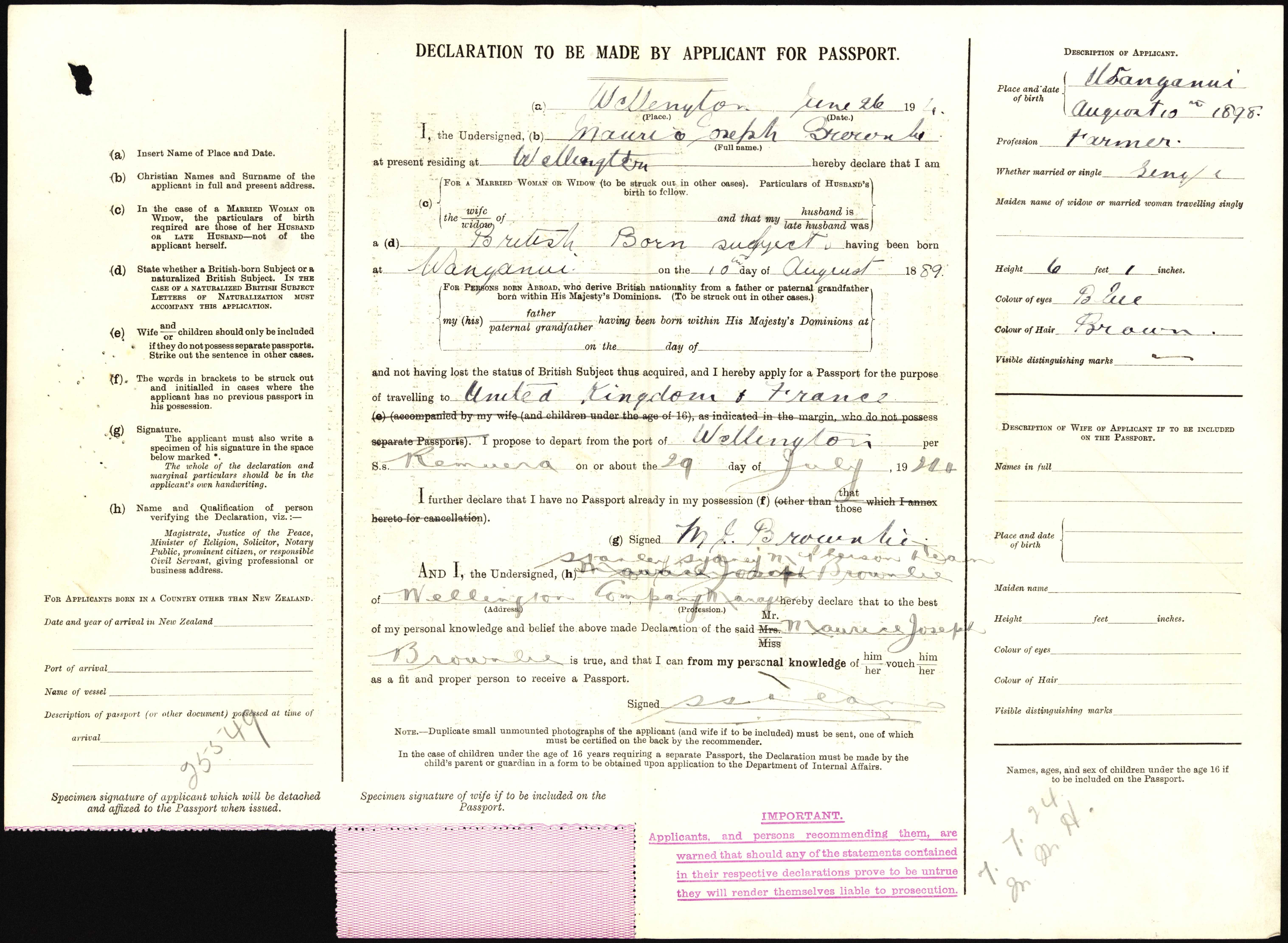 ACGO 8333 IA1 1349 / 15/11/17721 Maurice Brownlee passport application (1924)